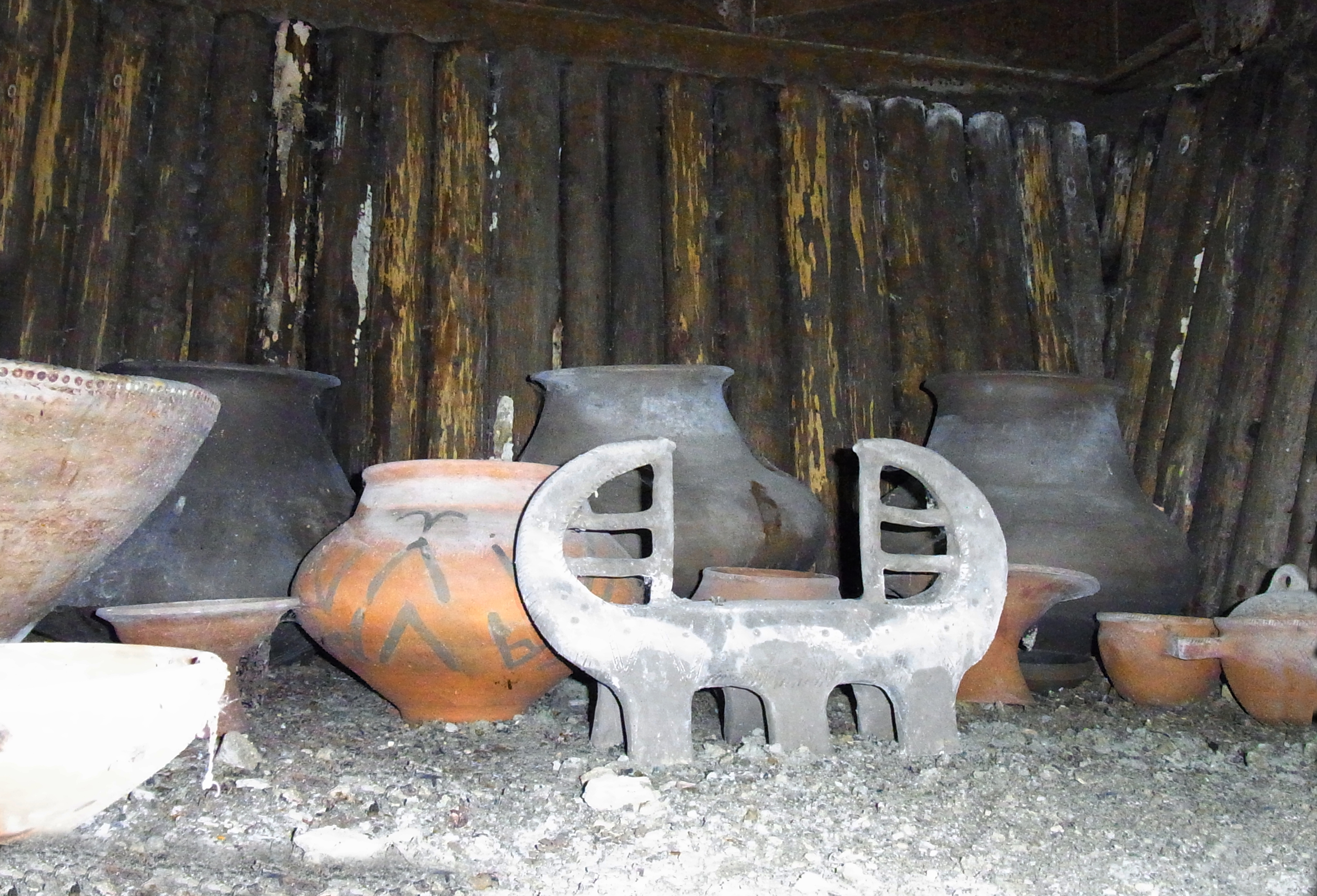 Sopron-Várhely, Early Iron Age Tumuli